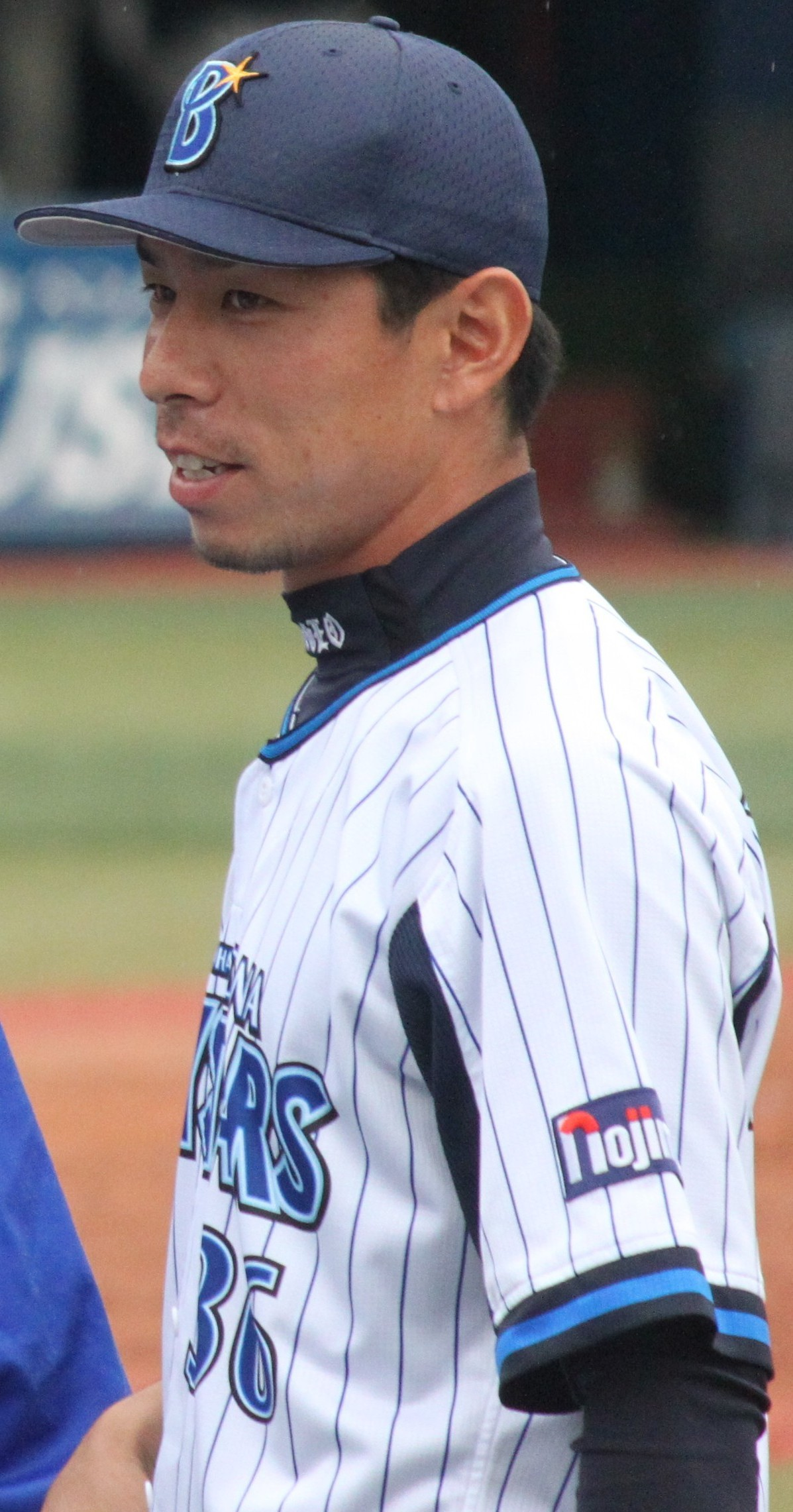 Shigeo Yanagida, infielder of the Yokohama DeNA BayStars, at Yokohama Stadium.